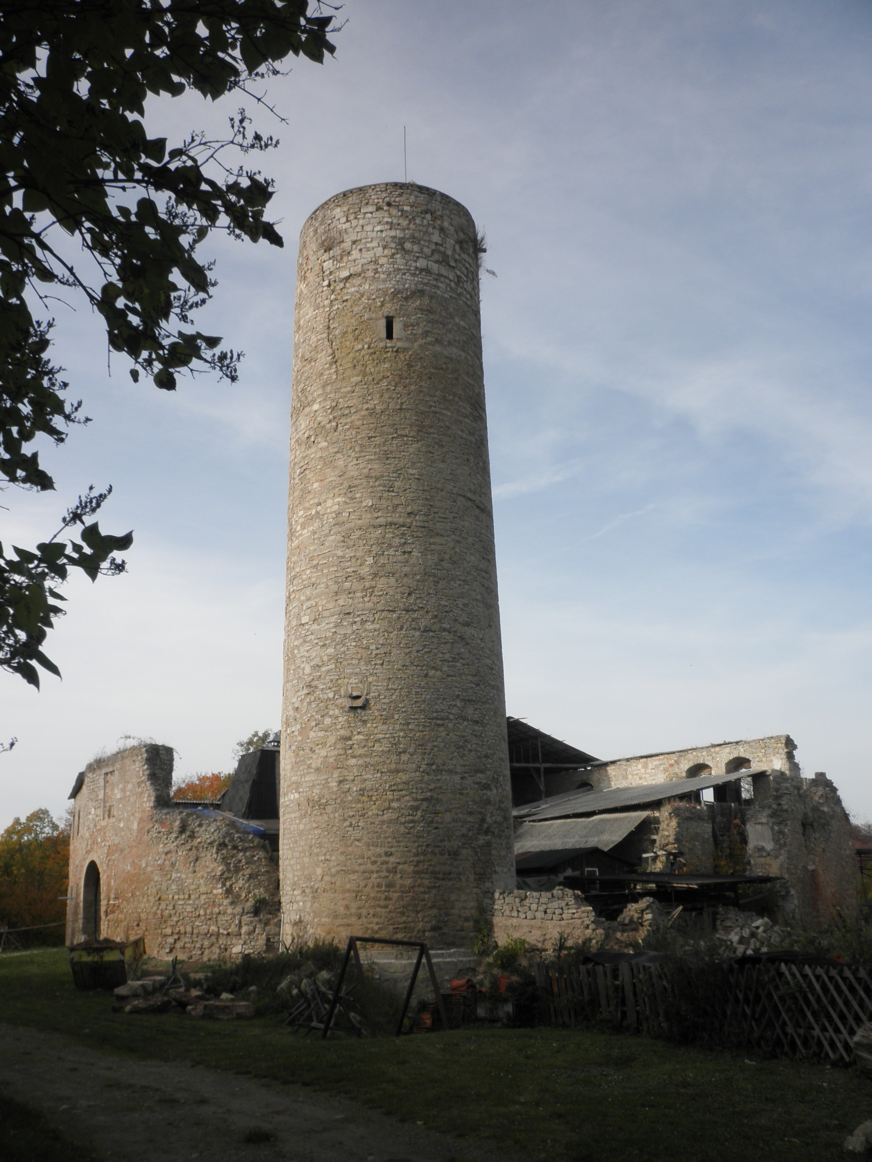 Castle in Straußberg (Sondershausen) in Thuringia